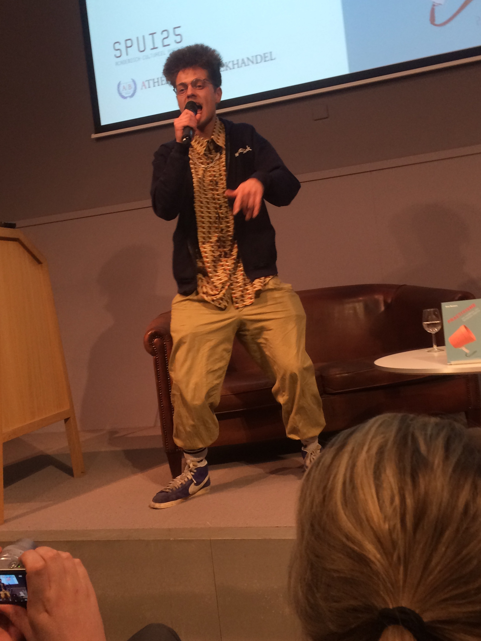 Dutch rapper Adam Bais